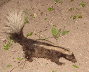 Photo of Conepatus semistriatus.